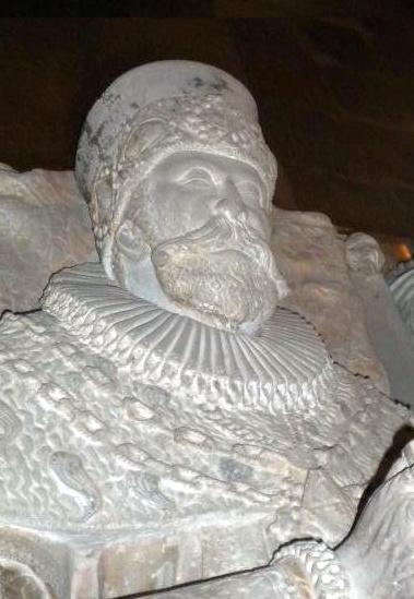 Detail of the sculpted monument on the grave of Prince Magnus of Sweden at Vadstena ChurchPlace: Vadstena, Sweden